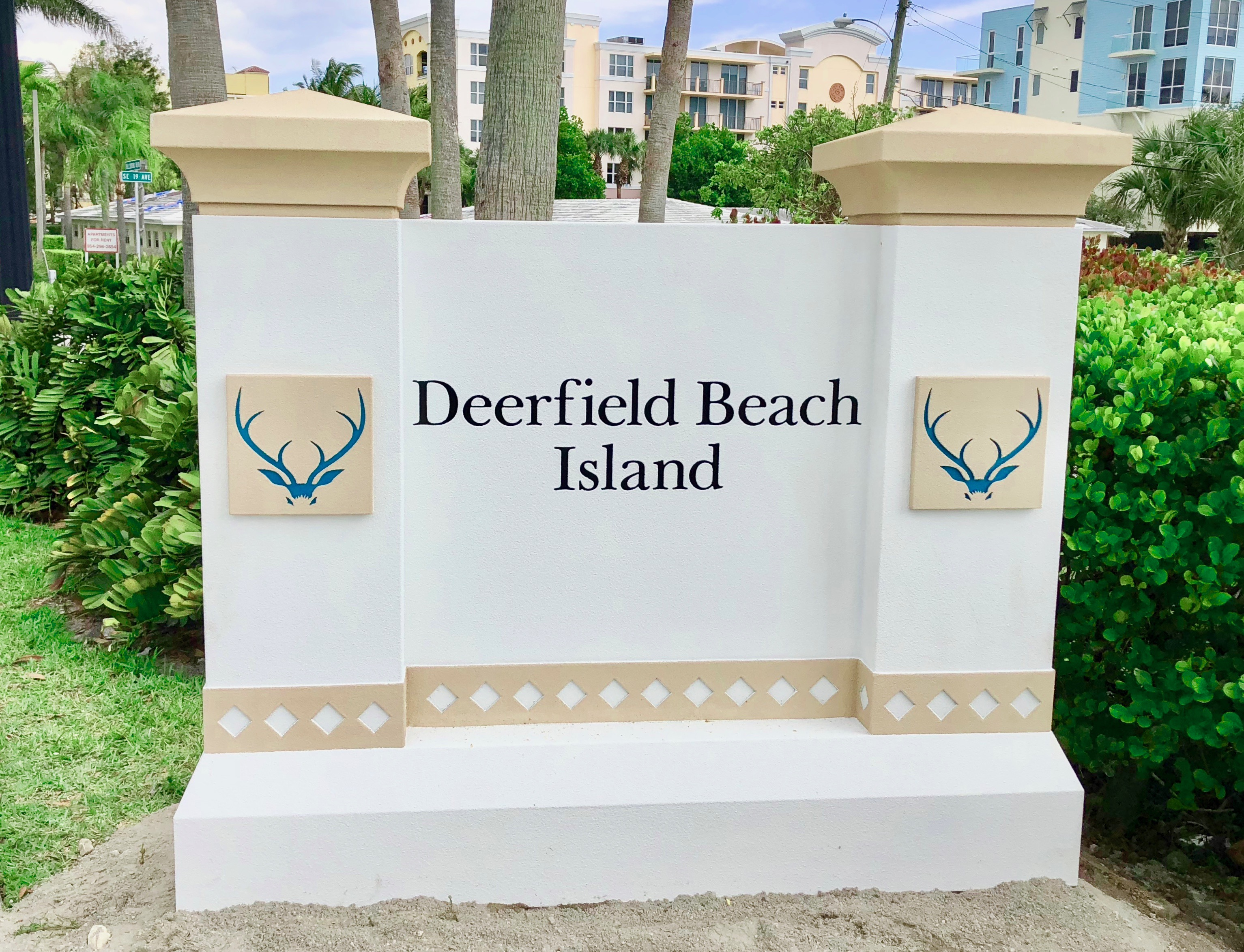 This is the sign/monument erected by the City of Deerfield Beach and state funded CRA on April 30th, 2018.